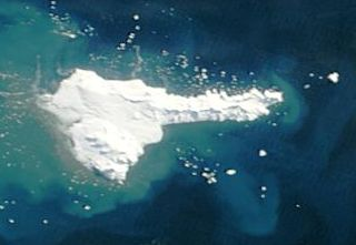 Satellitenbild von Elephant Island, NASA-Aufnahme, aus der englischen WP (siehe Image:Elephant_Island_Satellite_Photograph.jpg) Dieses Bild ist weltweit public domain, da es "Work of the United States federal Government" ist (siehe Work_of_the_United_States_Government) s.o. Kategorie:Insel (Antarktis)